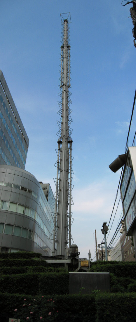 Tokyo television broadcasting antenna tower used by Japanese television network Nippon TV from the start of television broadcasting in Japan in 1953 until 1960. It is a type called a "super turnstyle" or batwing antenna; each vertical radiator consists of a pair dipole antennas ("wings") at right angles, which are fed 90° out of phase to create an omnidirectional radiation pattern. The advantage of the "batwing" design is that it has a broad bandwidth and so can transmit multiple television channels simultaneously. It is no longer used but is preserved at Chiyoda-ku, Tokyo Nibancho, NTV former headquarters near NTV's Kojimachi building, as a memorial of the beginning of TV broadcasting in Japan.